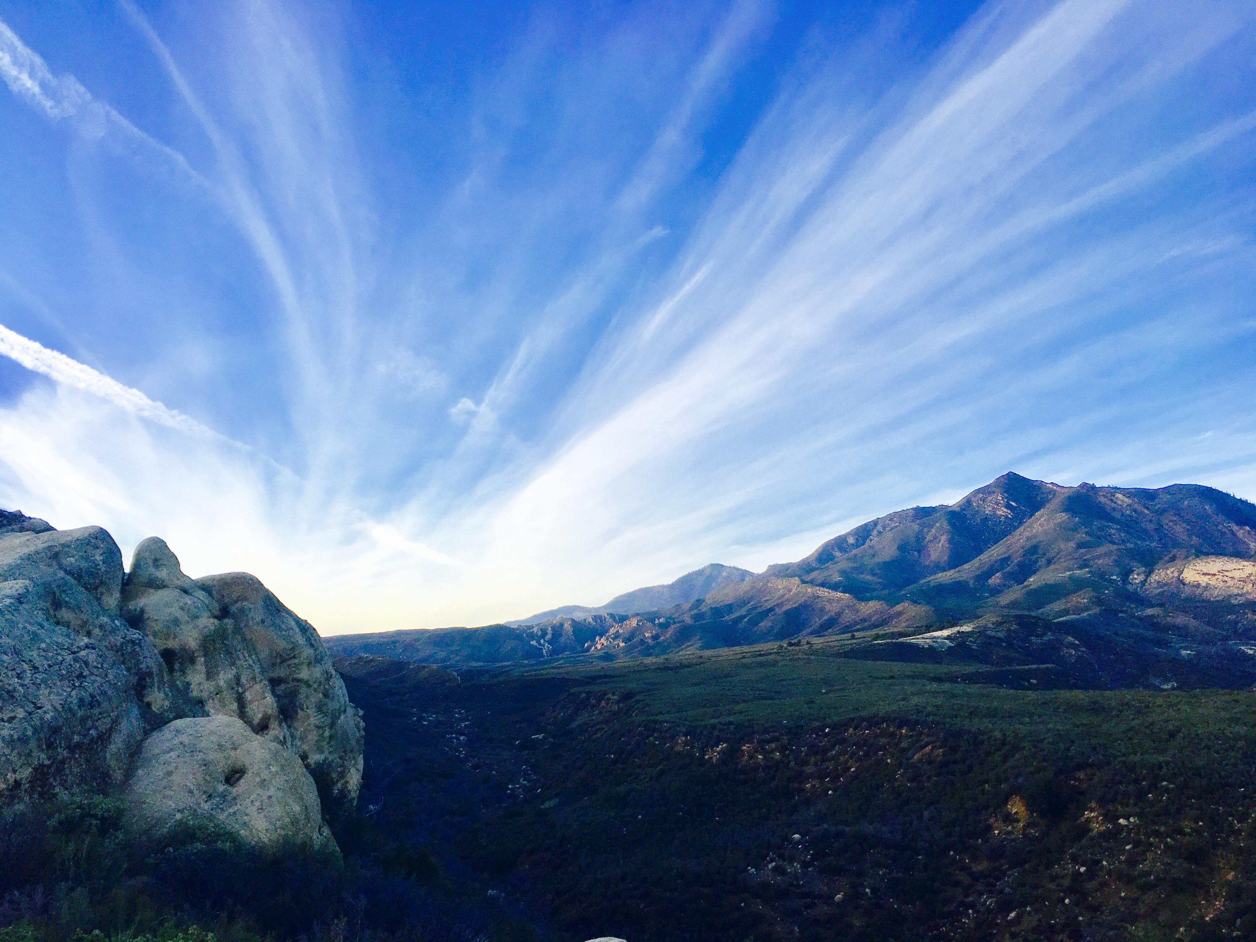 Los Padres National Forest just north of Ojai, California.